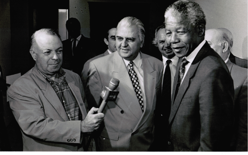 New Europe Editor, Basil Coronakis, (Left) interviewing Nelson Mandela in Johannesburg. This was one of the first interviews Mandela gave in 1990, 27 years after his imprisonment.